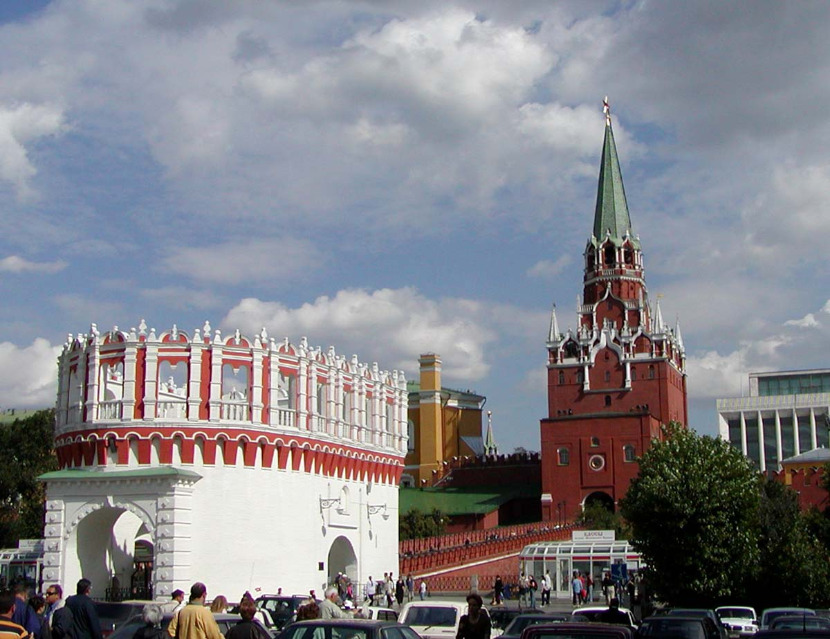 Photo of Kutafya and Troitskaya towers in Moscow Kremlin